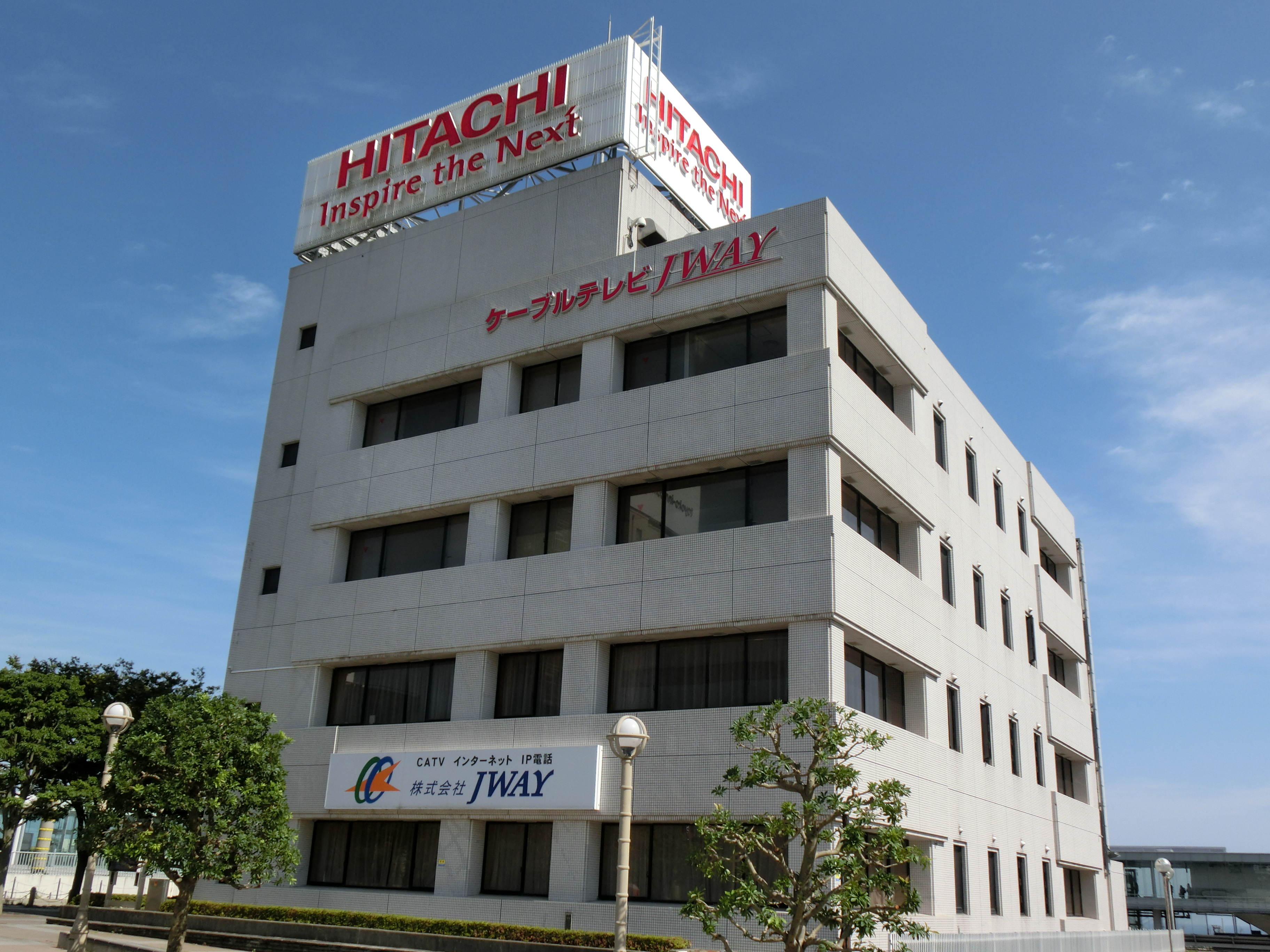 Cable TV JWAY Head Office